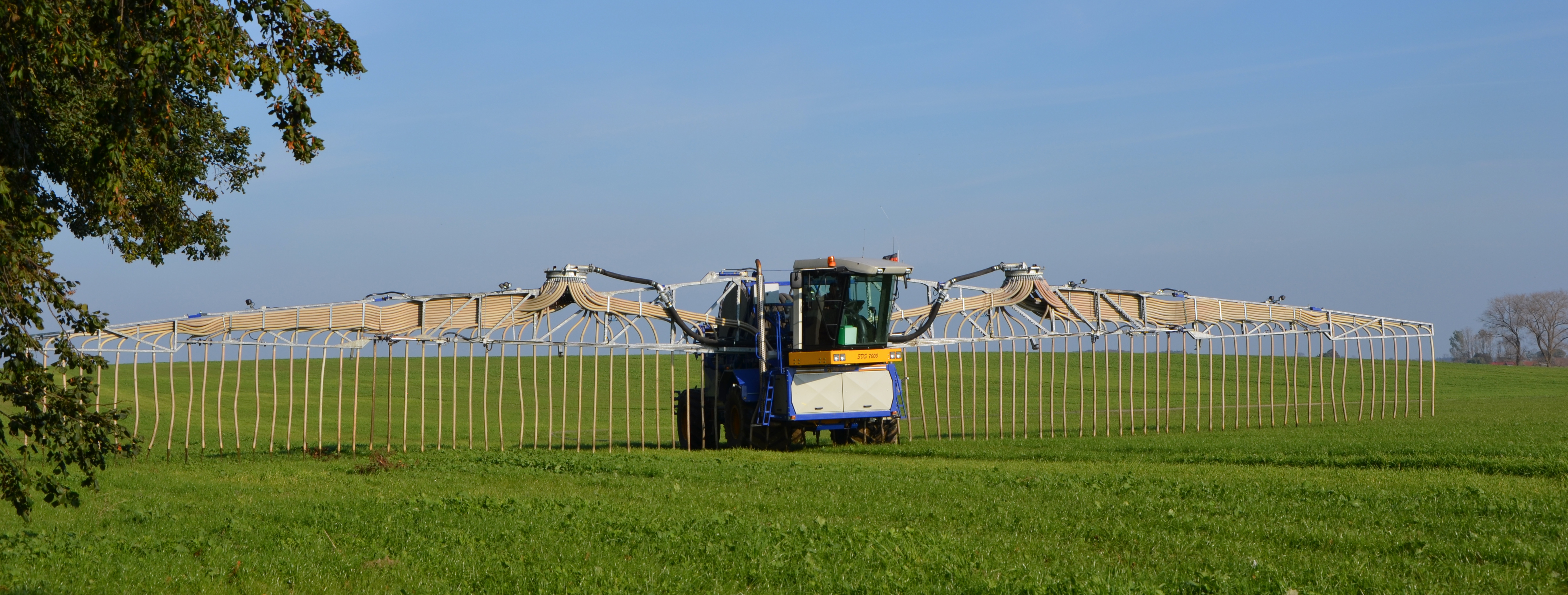 Agrometer SDS 7000 self-propelled "dribble bar" slurry spreader (trailing hose liquid manure spreader)